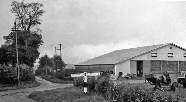 Site of Brockford & Wetheringsett Station View eastward, towards Laxfield on course of former Mid-Suffolk Light Railway, Haughley - Laxfield. Station had been just ahead. The line was closed completely on 26/7/52, but in 1992 the Heritage Mid-Suffolk Light Railway Society created a Museum here and currently run trains on about 0.5 mile of track.